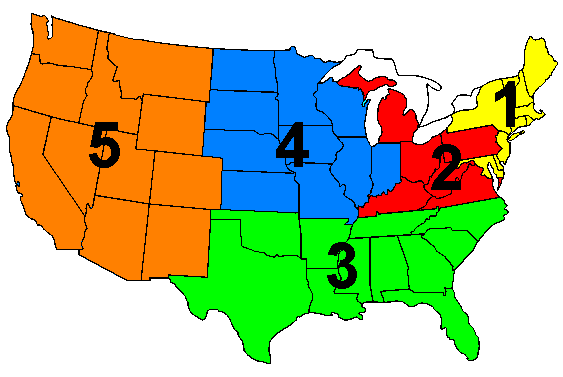 Map of USA divided into five zones used for allocating clear channnels in General Order 40 issued by the Federal Radio Commission in 1928.